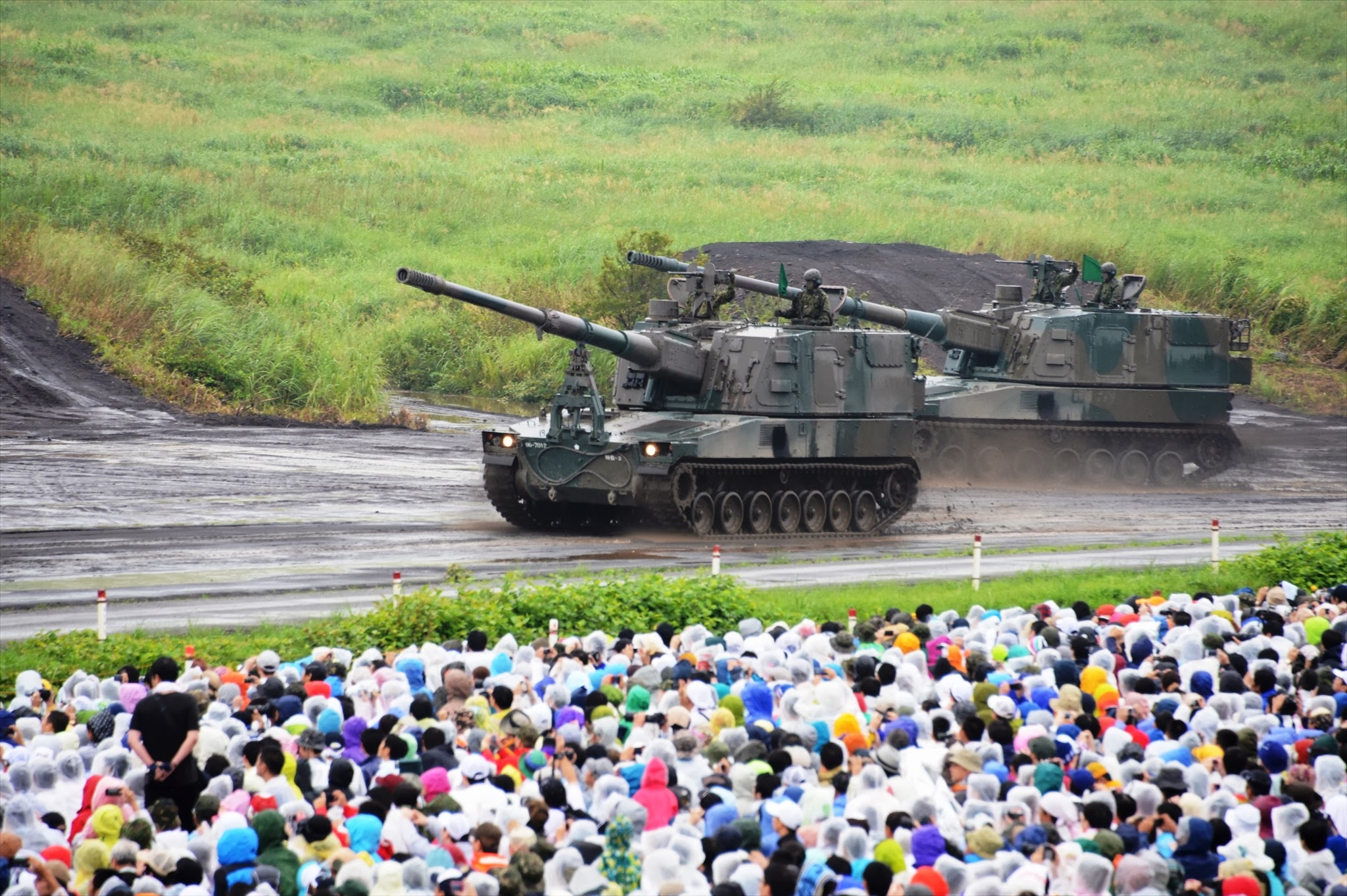 Title 前段1・遠距離火力4-4_99式自走155mmりゅう弾砲進入.JPG Album 富士総合火力演習・そうかえん 平成２５年度富士総合火力演習 前段演習・特科火力（99式自走155mm榴弾砲）